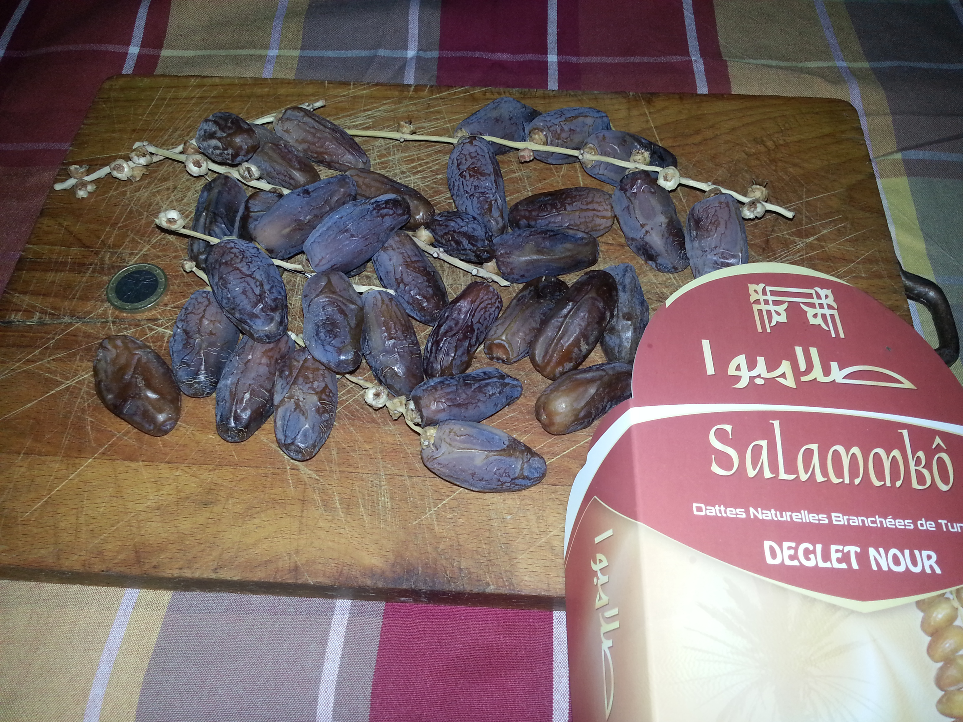 dates